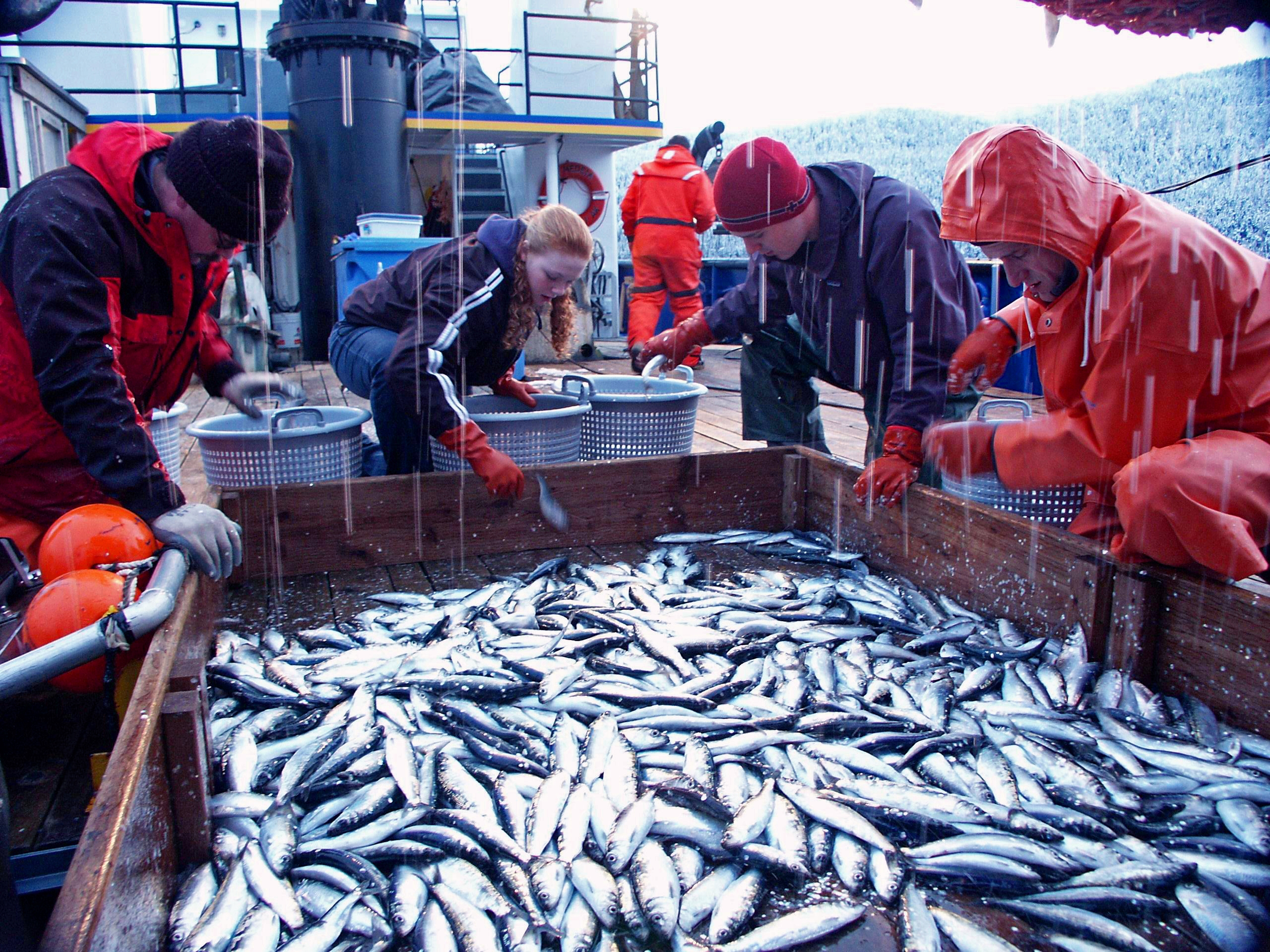 Sorting herring caught during an acoustic trawl survey of Lynn Canal. Alaska, Lynn Canal.